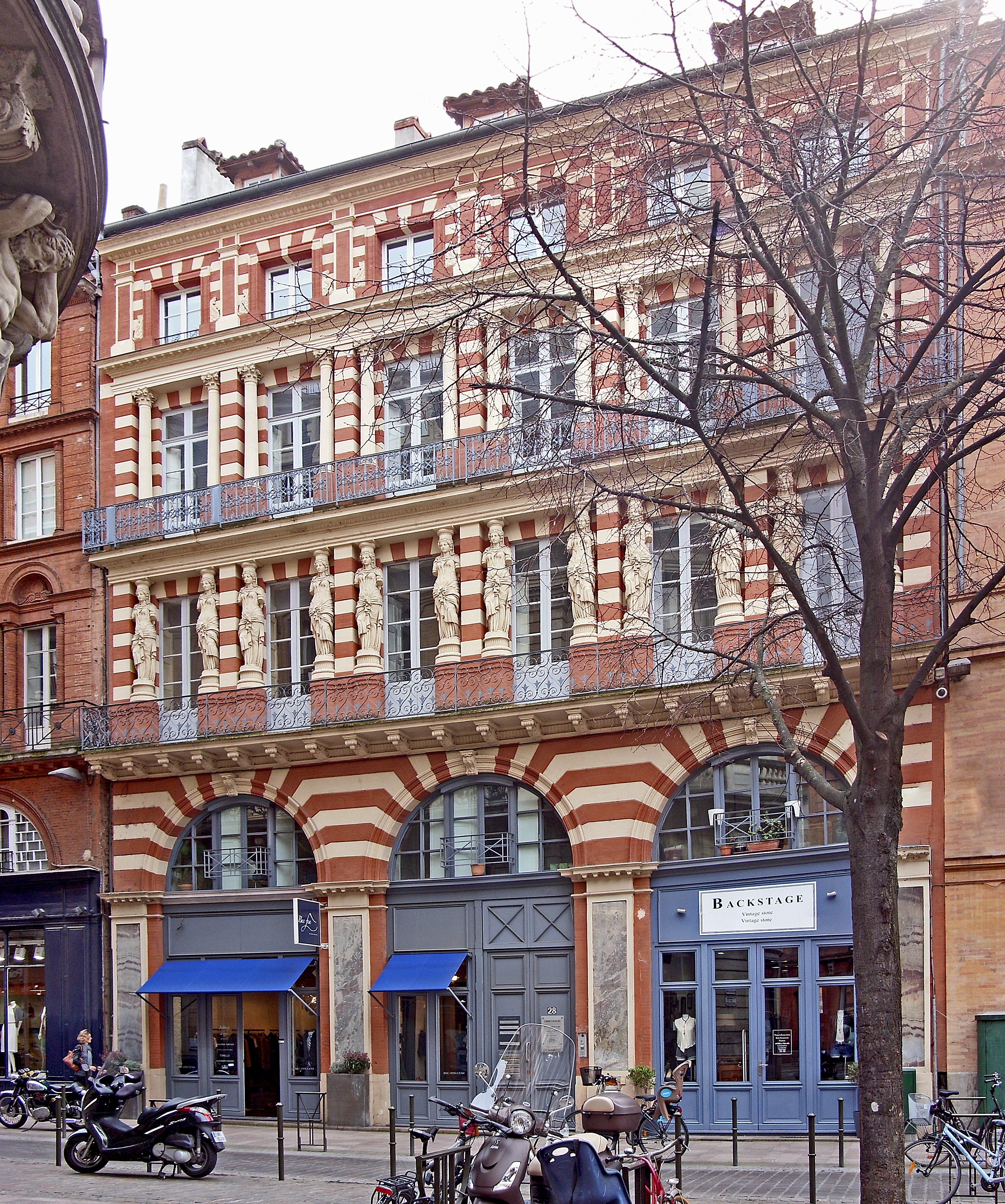 Facade of building 28, rue des Marchands by Auguste Virebent, in Toulouse